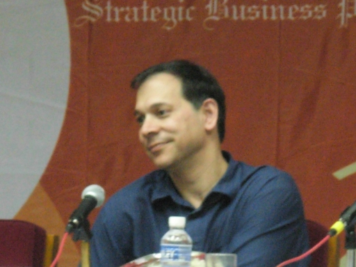 Photo of Ken Perlin, professor of Computer Science at New York University (NYU), taken at the Kshitij '07 conference.